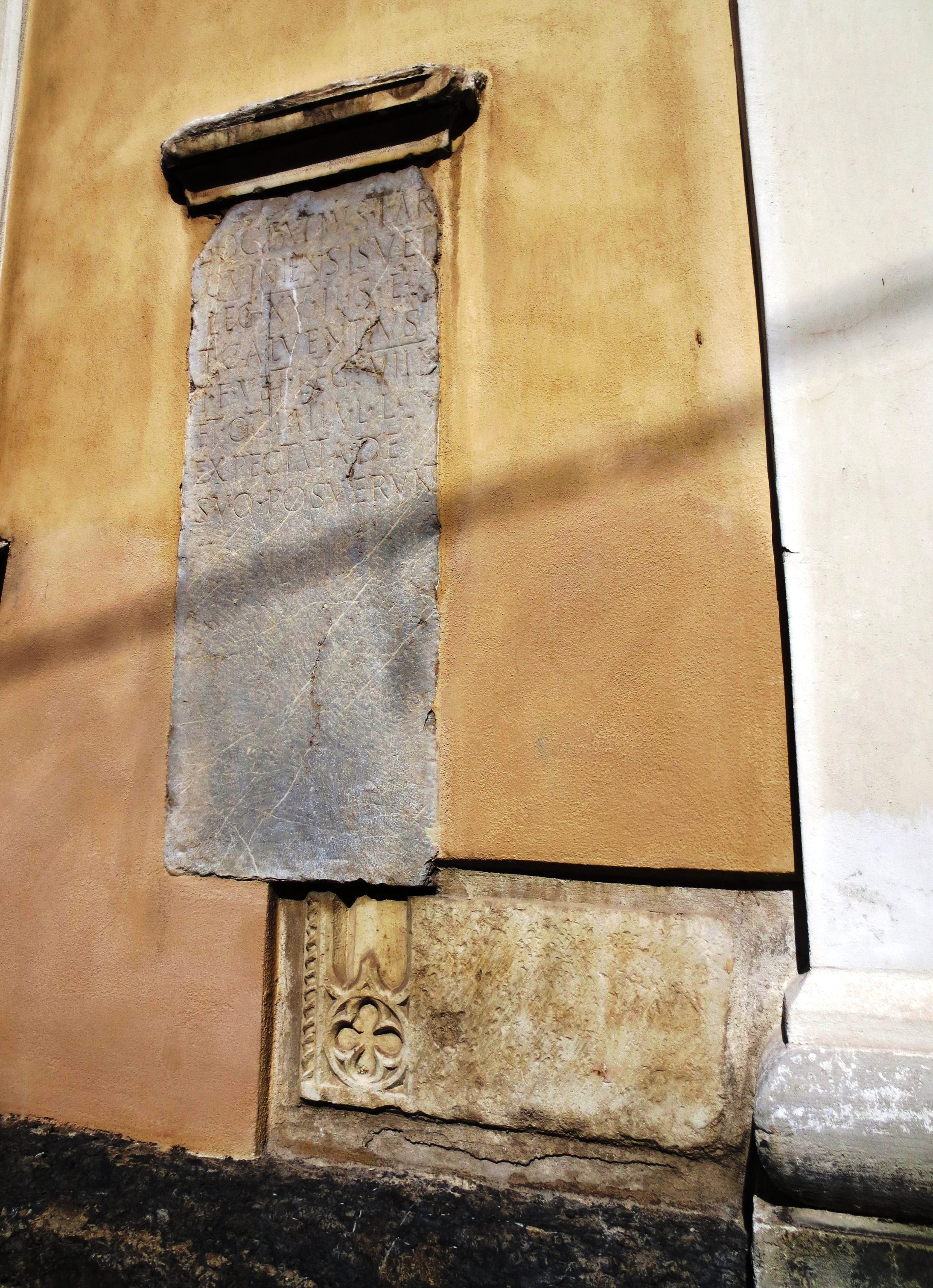 Roman tomb, built into Saint Nicholas' Cathedral in Ljubljana. 124 x 50 cm. The first half of the 1st century CE.